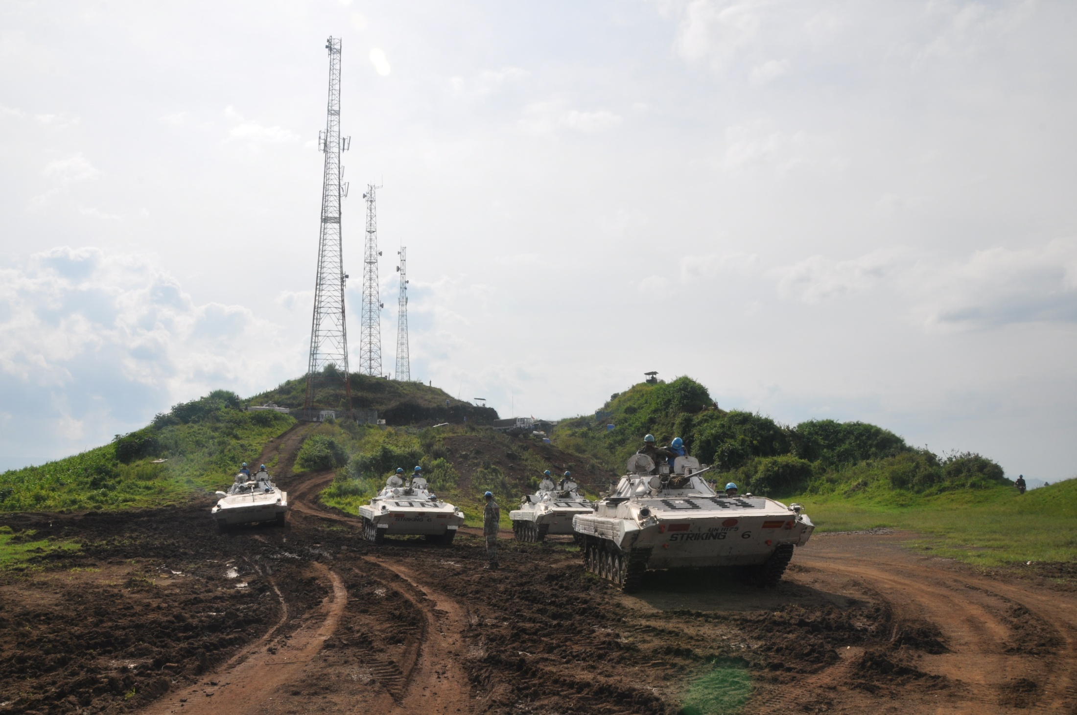 APVs of MONUSCO near Goma slide0004_image014